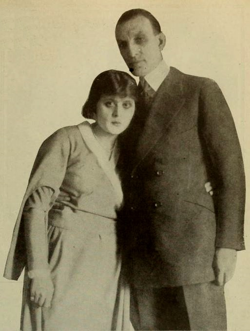 Actress Theda Bara and her husband, film director Charles Brabin, on page 53 of the June 1922 Photoplay Magazine.